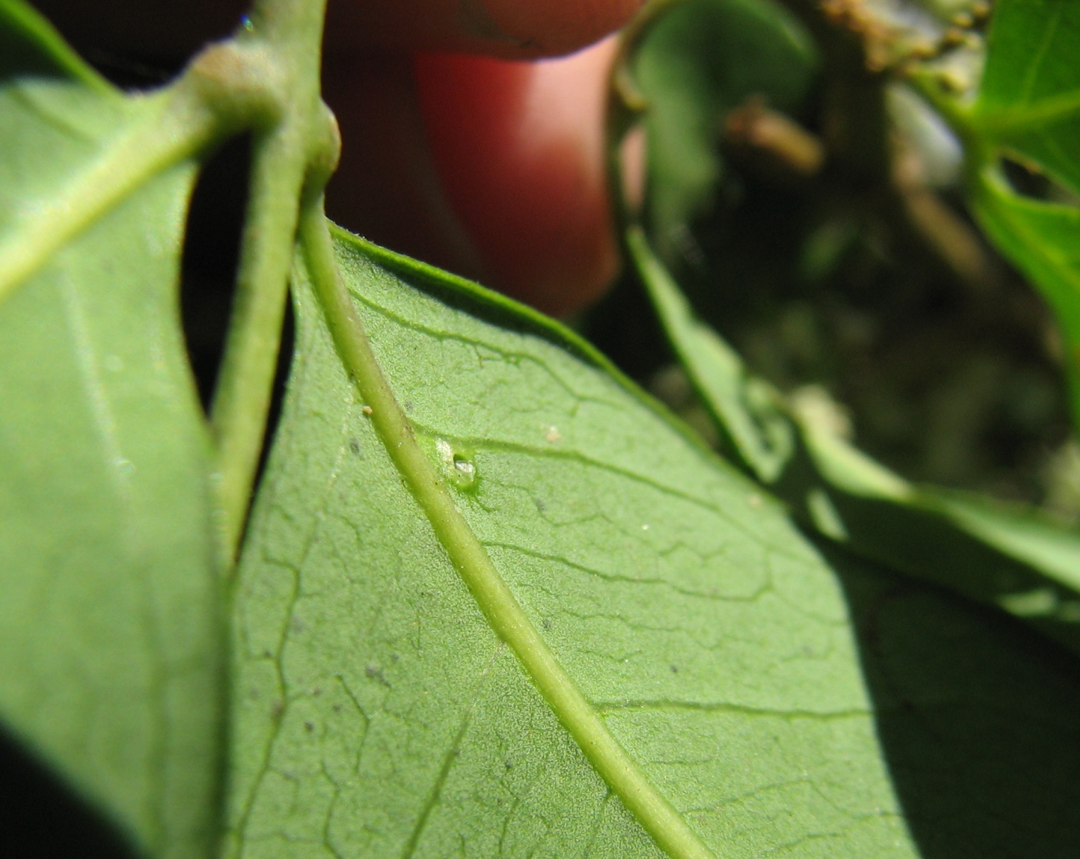 Guioa acutifolia pinnate leaf underside showing the swellings at the bases of each leaflet stalk and a single foveole domatium on the leaflet blade underside near the intersection of the main vein and the second secondary vein (identified by User:Macropneuma) Location: Pelican Park, Kewarra Beach, Queensland, Australia